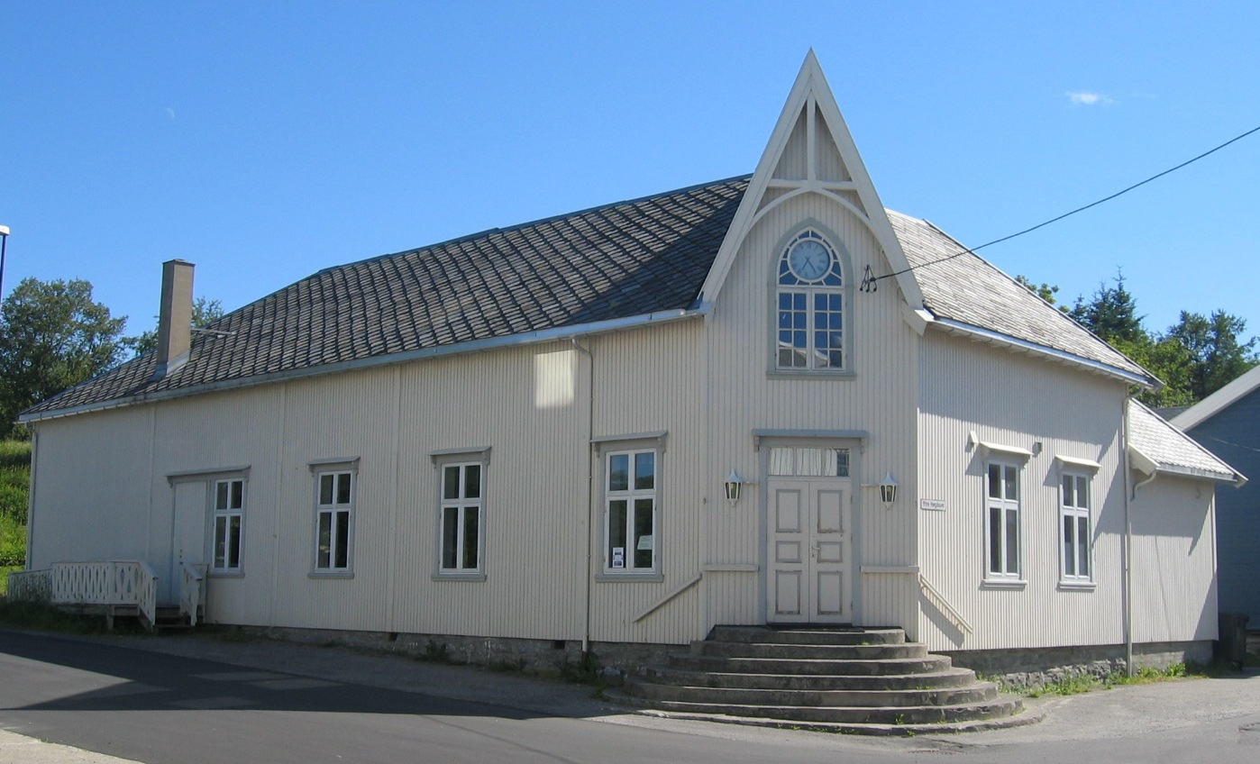 The old assembly house in Brønnøysund, Norway